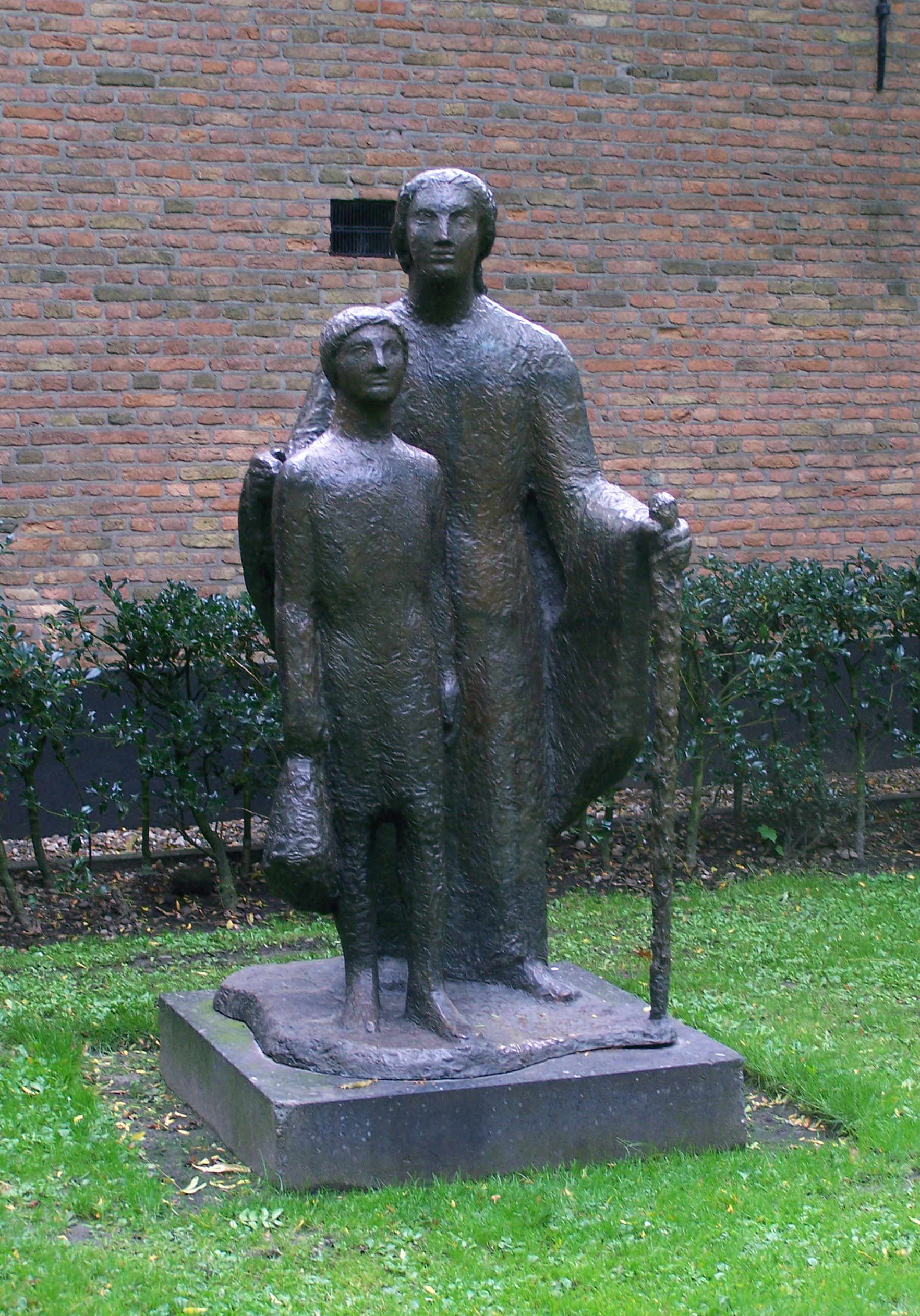 Sculpture "Tobias en de Engel" (Tobias/Tobit and the angel) by Mari Andriessen in 1972. Placed at the Park Valkenberg in Breda.